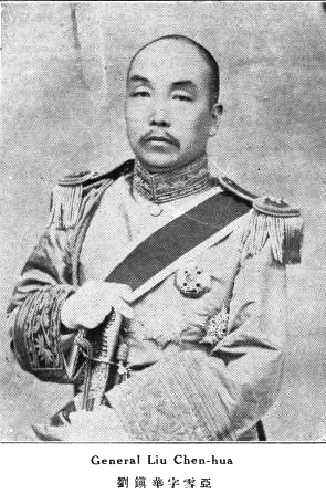 Liu Zhenhua(1883 - 1955)